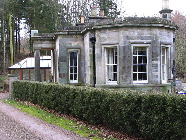 East Lodge. This is the East Lodge of the Whittingehame Estate, next to where the Whittingehame Water runs into the Luggate Burn. They join the Biel Burn to flow east towards Dunbar.